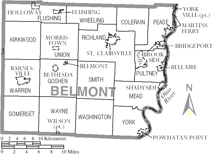 Map of Belmont County, Ohio, United States with township and municipal boundaries